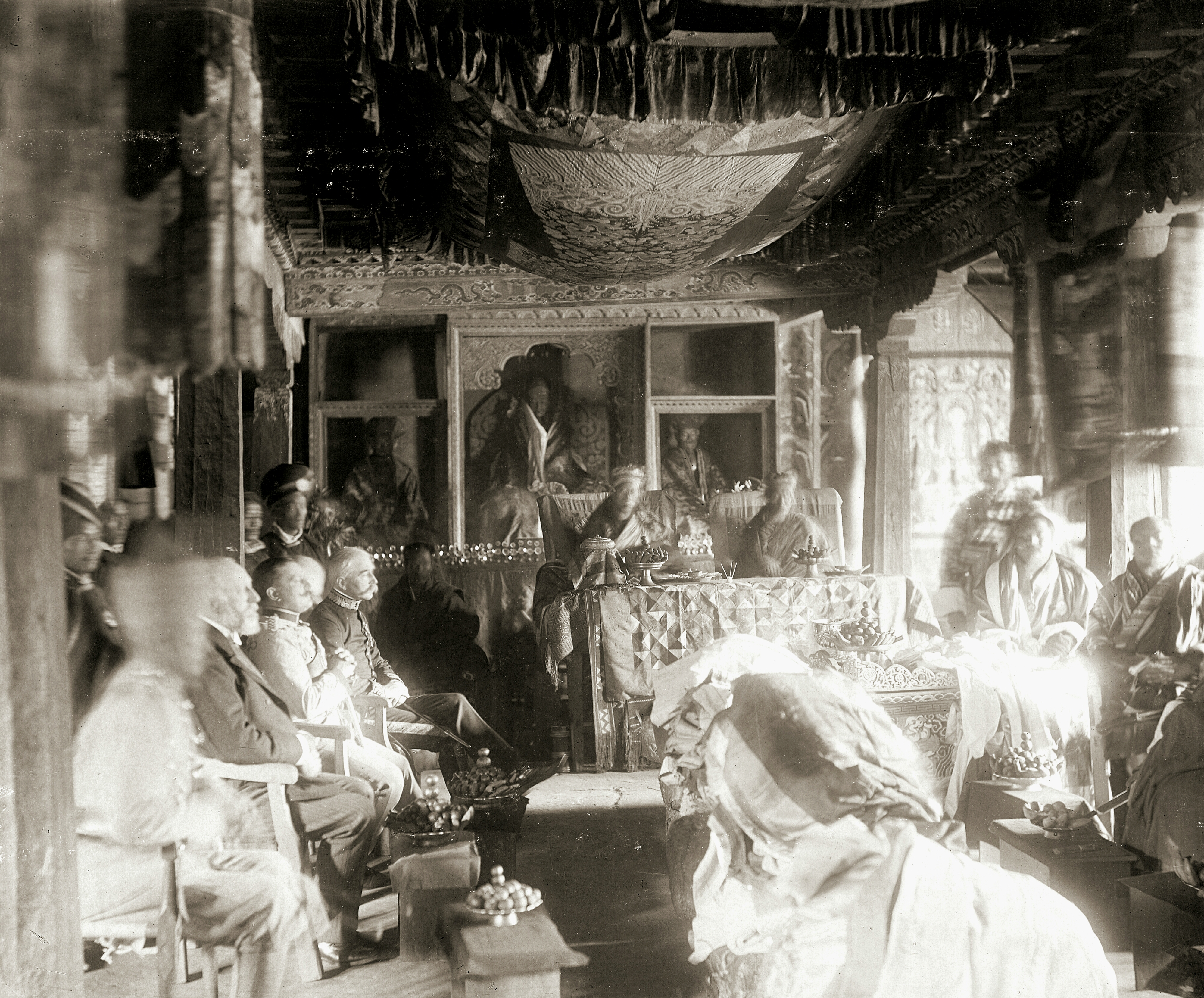 Durbar of King Ugyen Wangchuck, receiving the order of the Knight Commander of the Indian Empire, KCIE — at Punakha, Bhutan, 1905. Seated from the left wall - Subadar Jahandad Khan (40th Pathans), A.W. Paul, Major Rennick, John Claude White; centre - Deb Raja, Head Abbot; right - Thimbu Jongpen [Dzongpen or lord of Thimpu Dzong], Tongsa Penlop, Ugyen Kazi (British Agent).